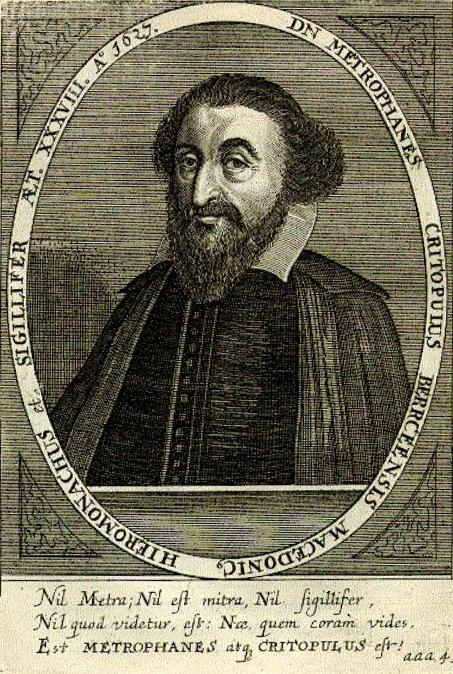 Greek Macedonian patriarch and theologian. born 1589, Beroea, Macedonia, Ottoman Empire died May 30, 1639, Walachia, Ottoman Empire. Jean-Jacques Boissard: Bibliotheca chalcographica.